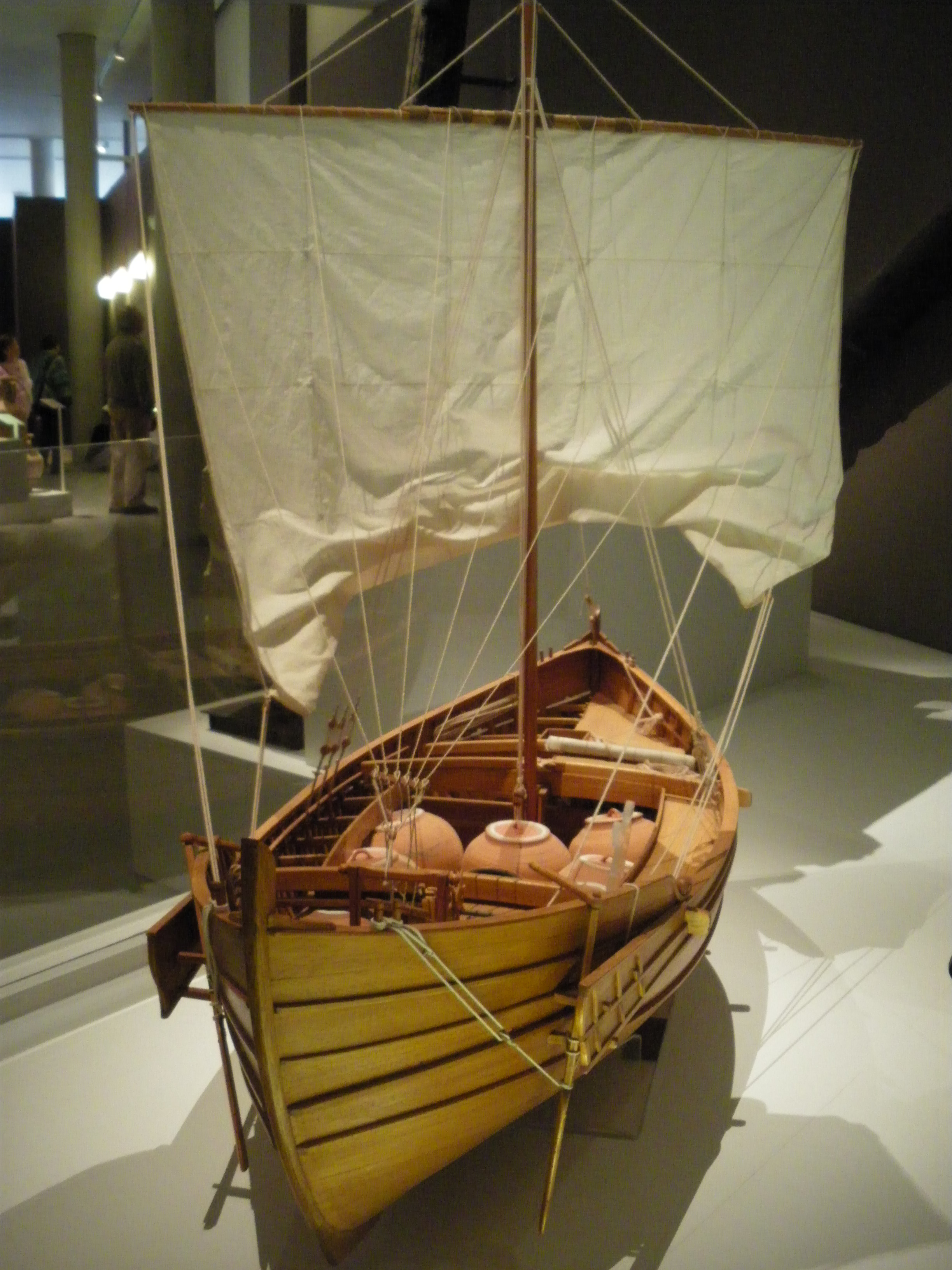 model reconstituting a Roman boat of coastal traffic on the Rhone, in the museum of Arles